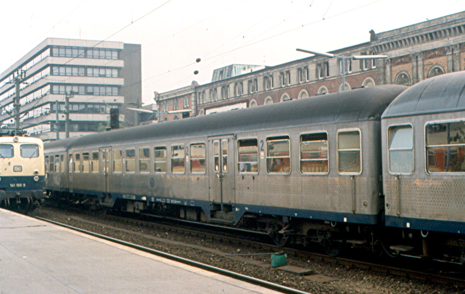 Silberling cars with stainless steel siding in Hannover station. (The name derives from the German word for silver.) The Deutsche Bundesbahn had over 5,000 built between 1961 and 1980. An E 41 (141) electric locomotive is at left.